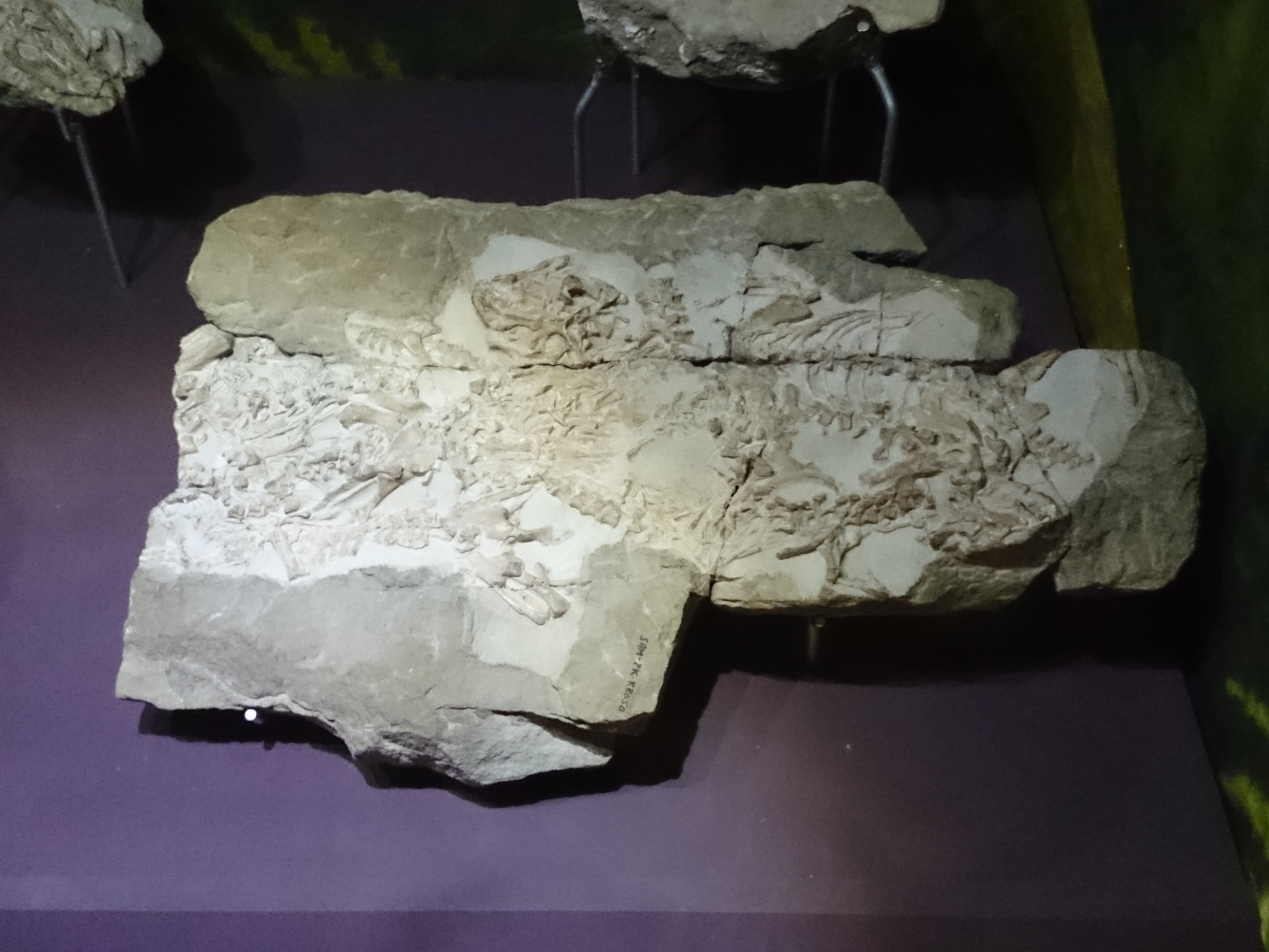 Shows at least 3 partially articulated skeletons lying alongside each other.